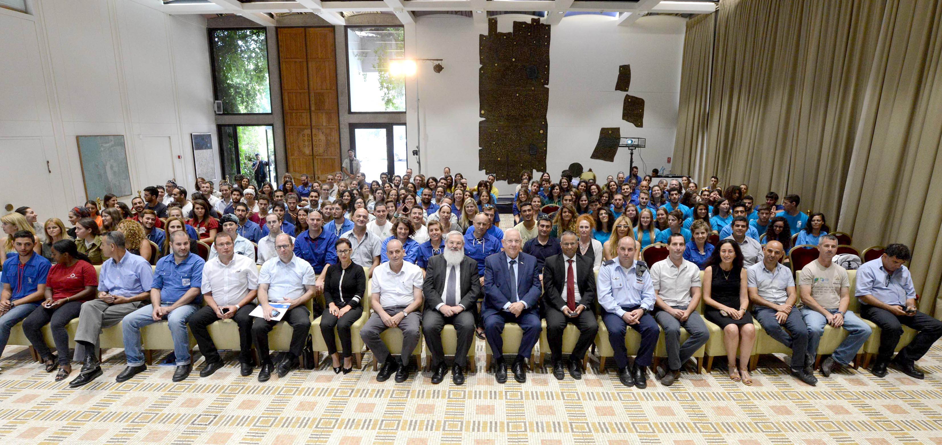 President of the State of Israel, Reuven Rivlin, at a ceremony honoring Service Year volunteers for the year of service for 5777. Thursday, July 27, 2017. Photo Credit: Mark Neyman / GPO.